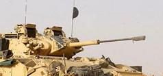 The 30mm RARDEN cannon on the Warrior infantry fighting vehicle